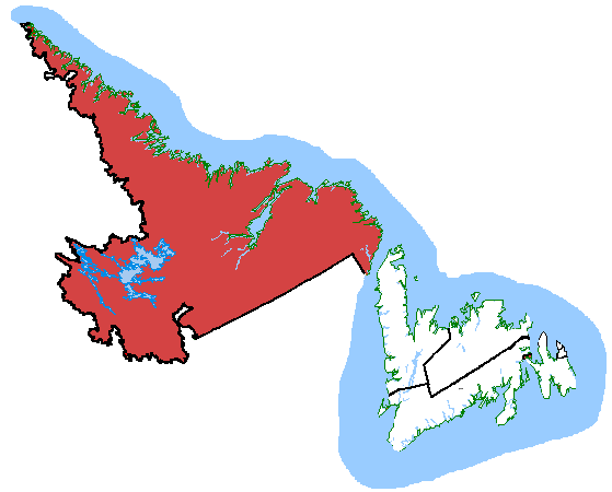 Map of the Labrador electoral district. Based on Earl Andrew's maps, created by SimonP.